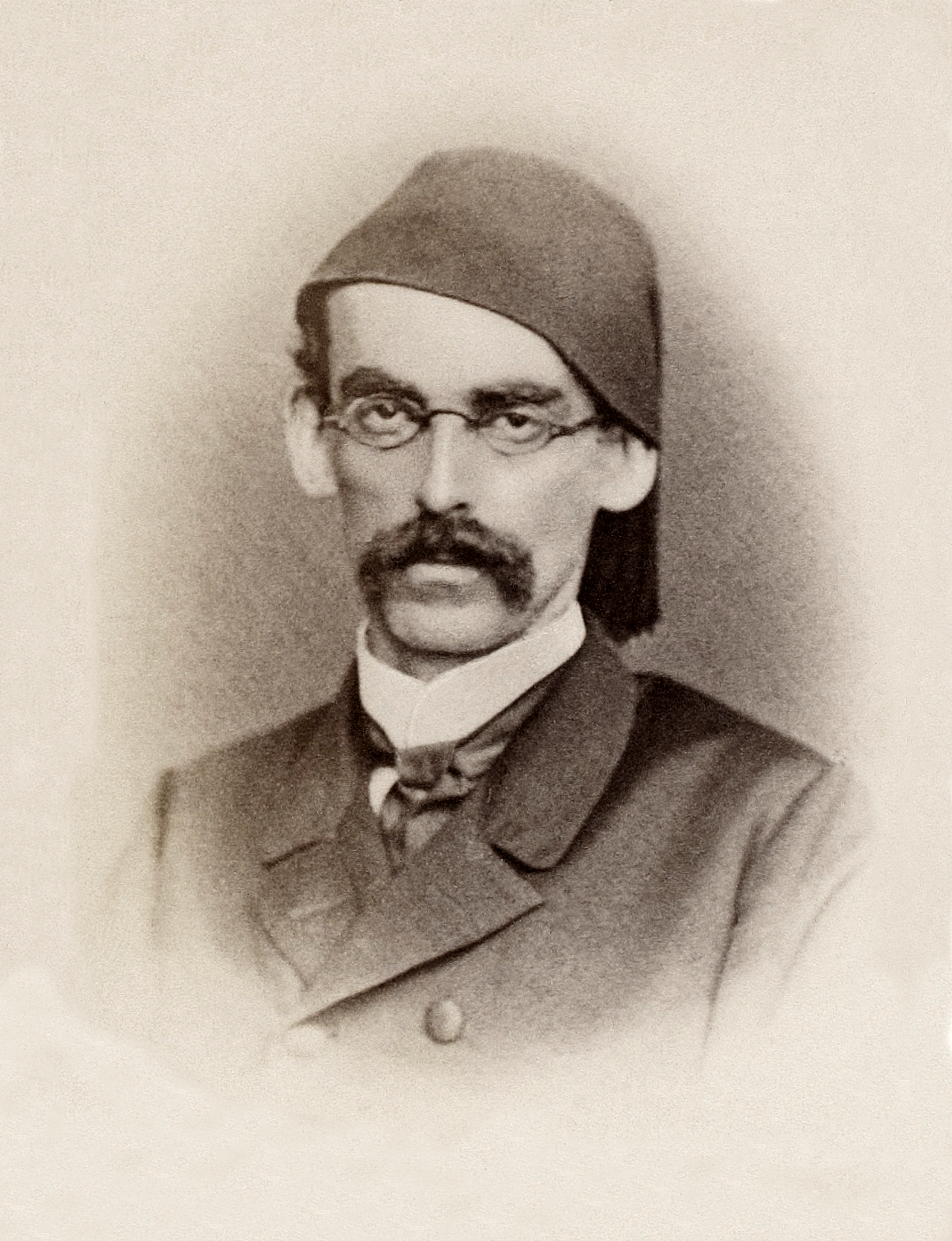 Emin Pasha -(born Eduard Schnitzer)- (1840 - 1892), german-egyptian physician, explorer and adventurer.